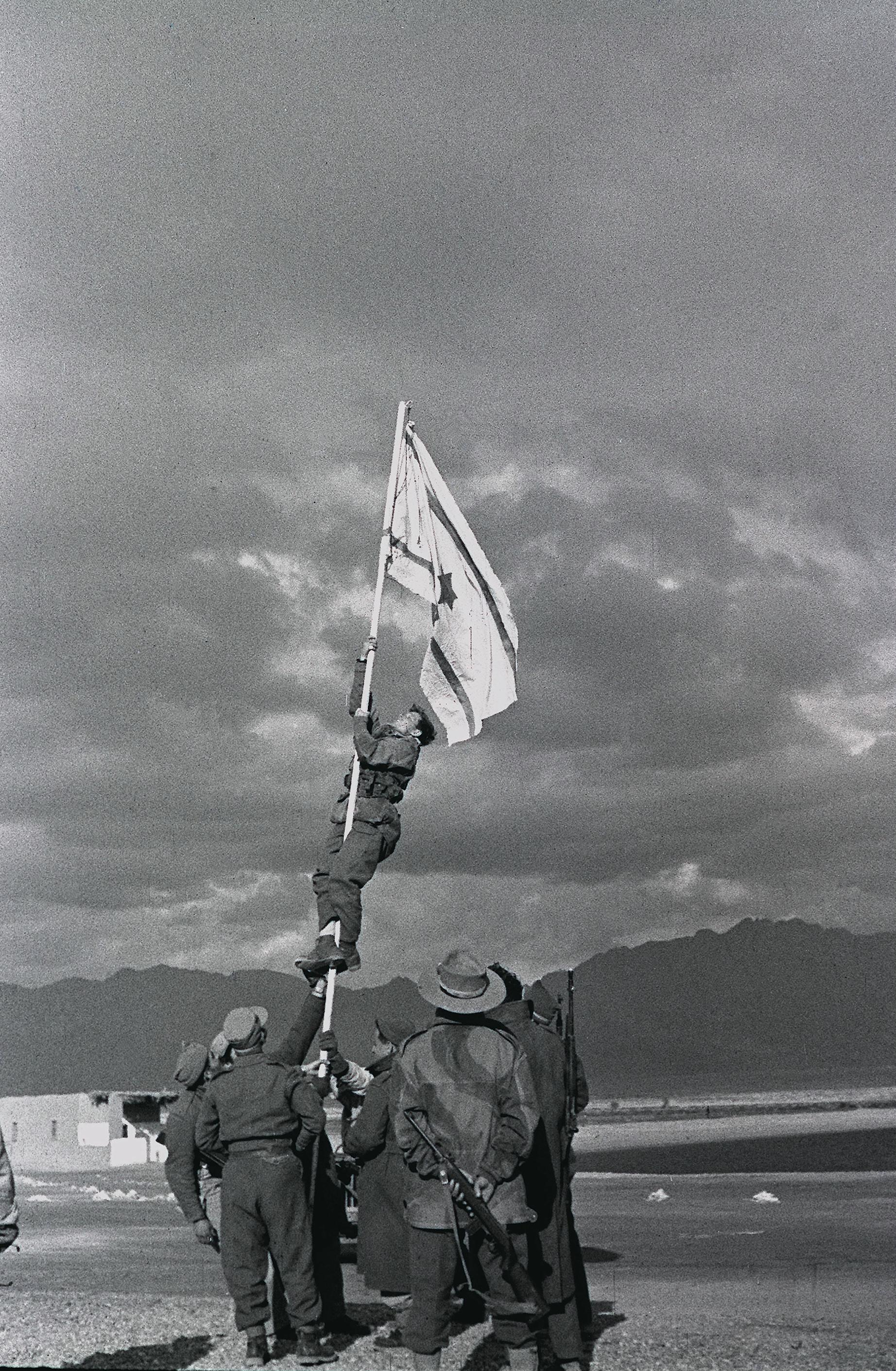 The ink-drawn national flag of Israel flies at Um Rashrash (now Eilat) across the Gulf of Aqaba on the northern tip of the Red Sea.